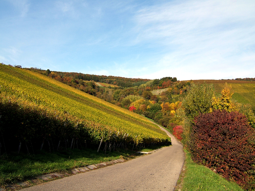 Rems Valley, Baden-Württemberg, Germany; vineyards in autum